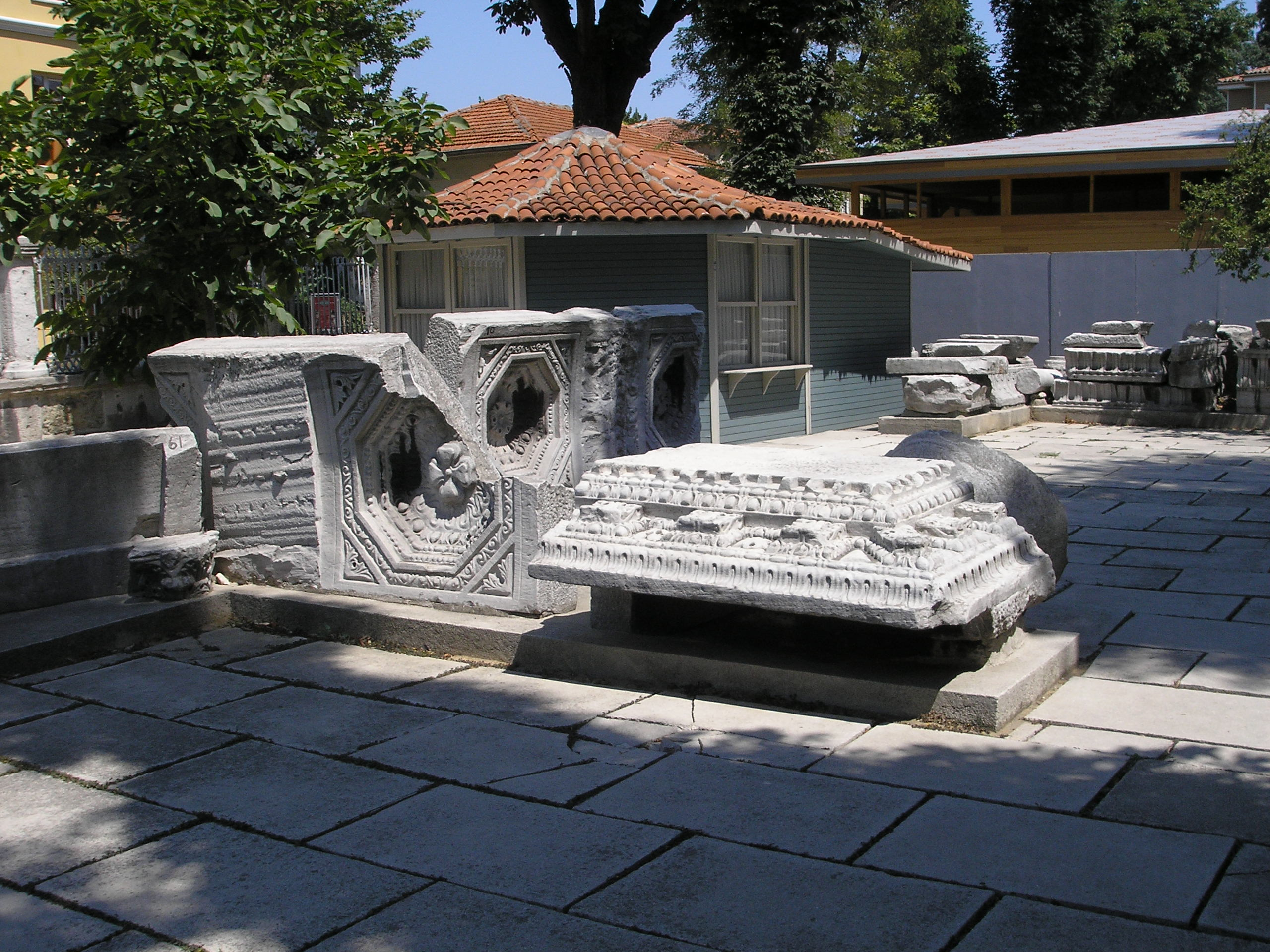 Images of the remains of the basilica that was constructed during the reign of emperor Theodosius II and stood from 415 C.E. - 532 C.E. Remains are exhibited next to the current Hagia Sophia.